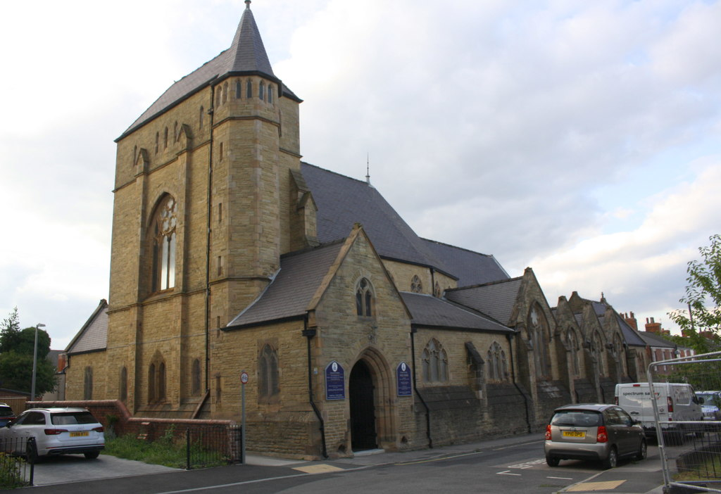 Annunciation Roman Catholic Church on the junction of Brickyard Walk and Spencer Street in Chesterfield, Derbyshire.